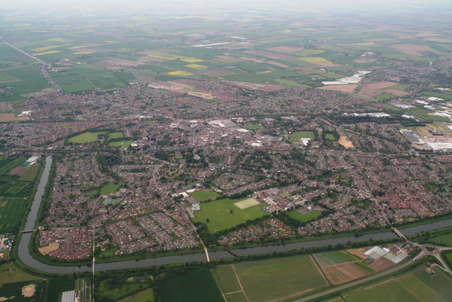 Spalding from the ESE: aerial